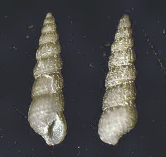 Chrysallida fenestrata (Jeffreys, 1848) ; Pyramidellidae; Spain